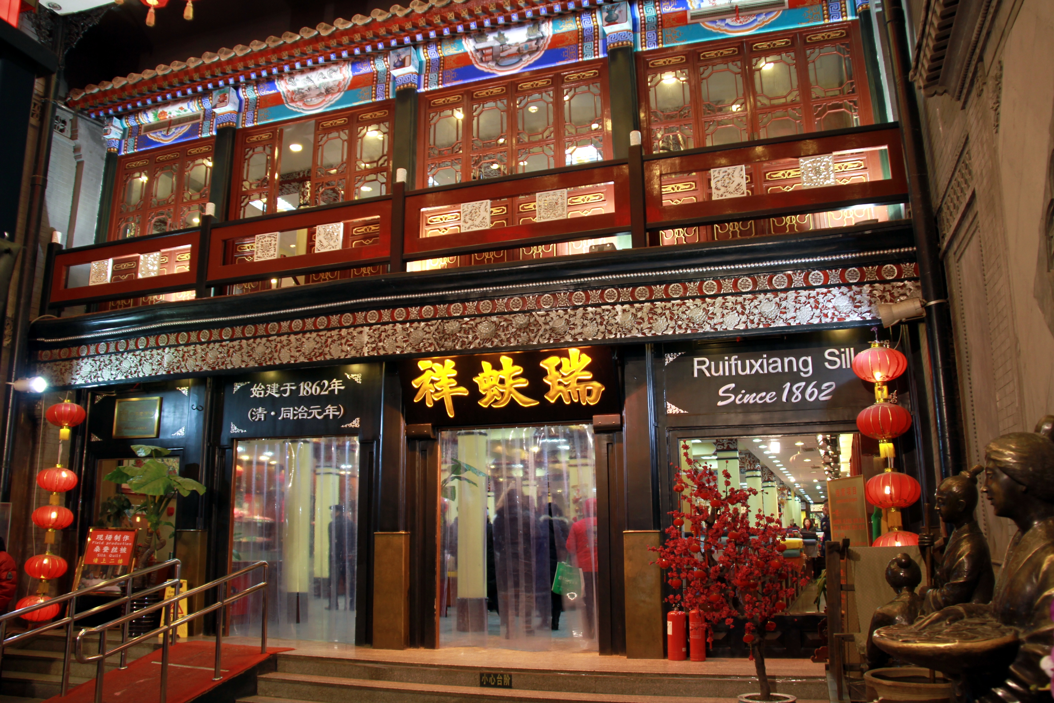 Photograph of the foyer of the Rui Fu Xiang store in Qianmen neighborhood of Beijing, China.